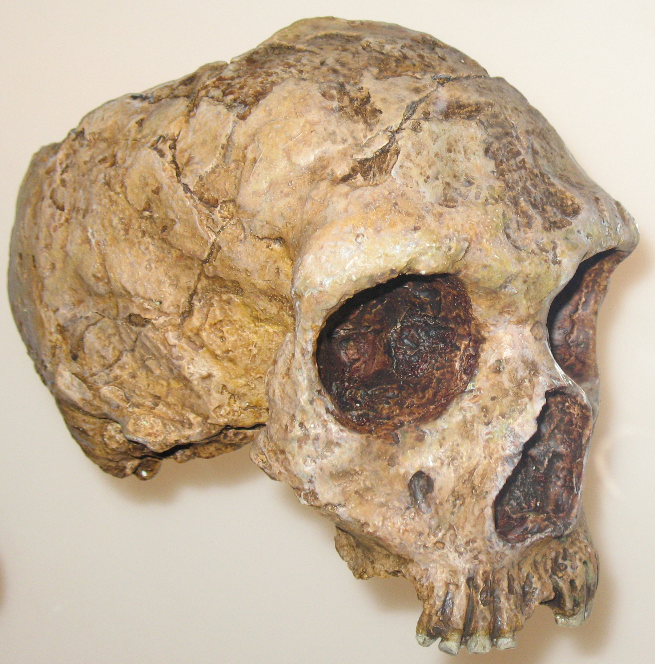 Skull of a Homo neanderthalensis (30.000 - 50.000 years old); American Museum of Natural History